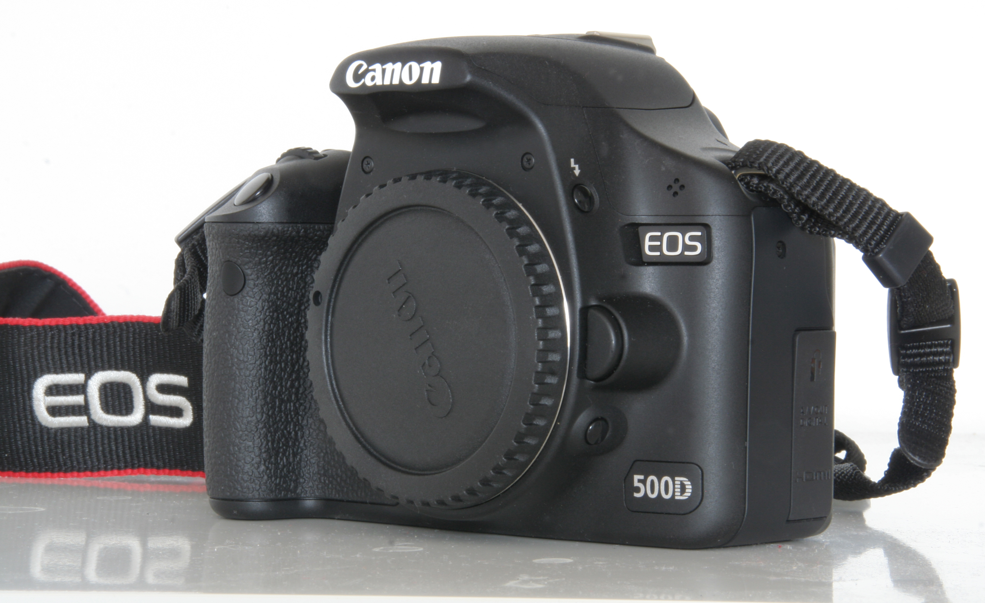 Canon EOS 500d frontside